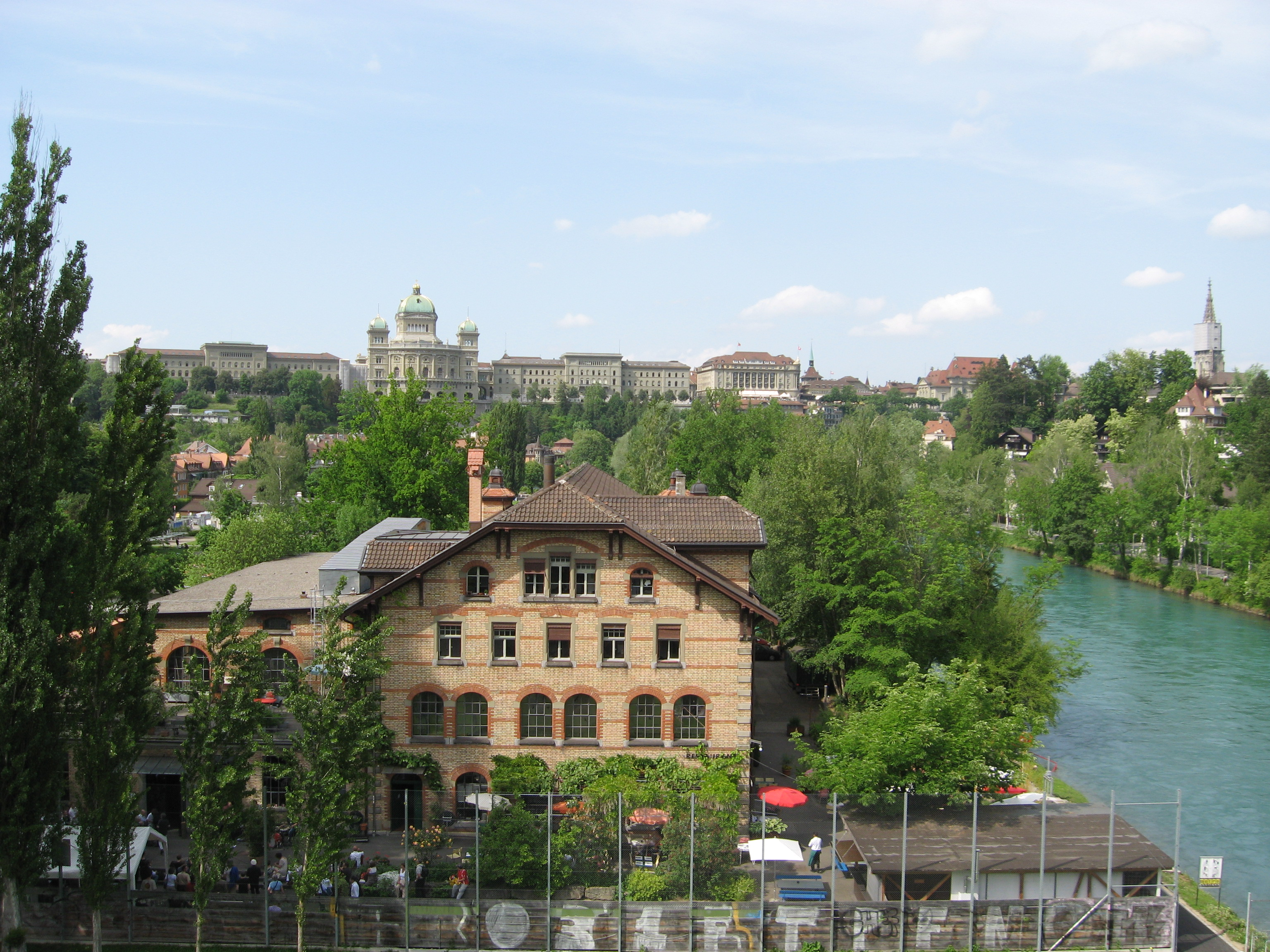 Dampfzentrale at Bern with Federal Palace (middle) and Münster (right) in background